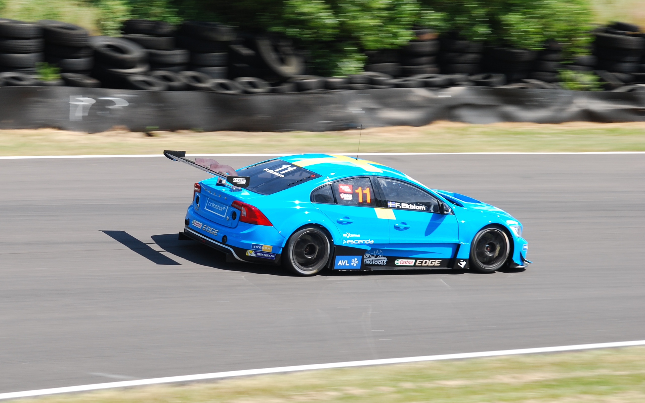 Fredrik Ekblom driving for Volvo Polestar Racing at Falkenbergs Motorbana, during the fifth round of the 2015 Scandinavian Touring Car Championship (STCC) season.